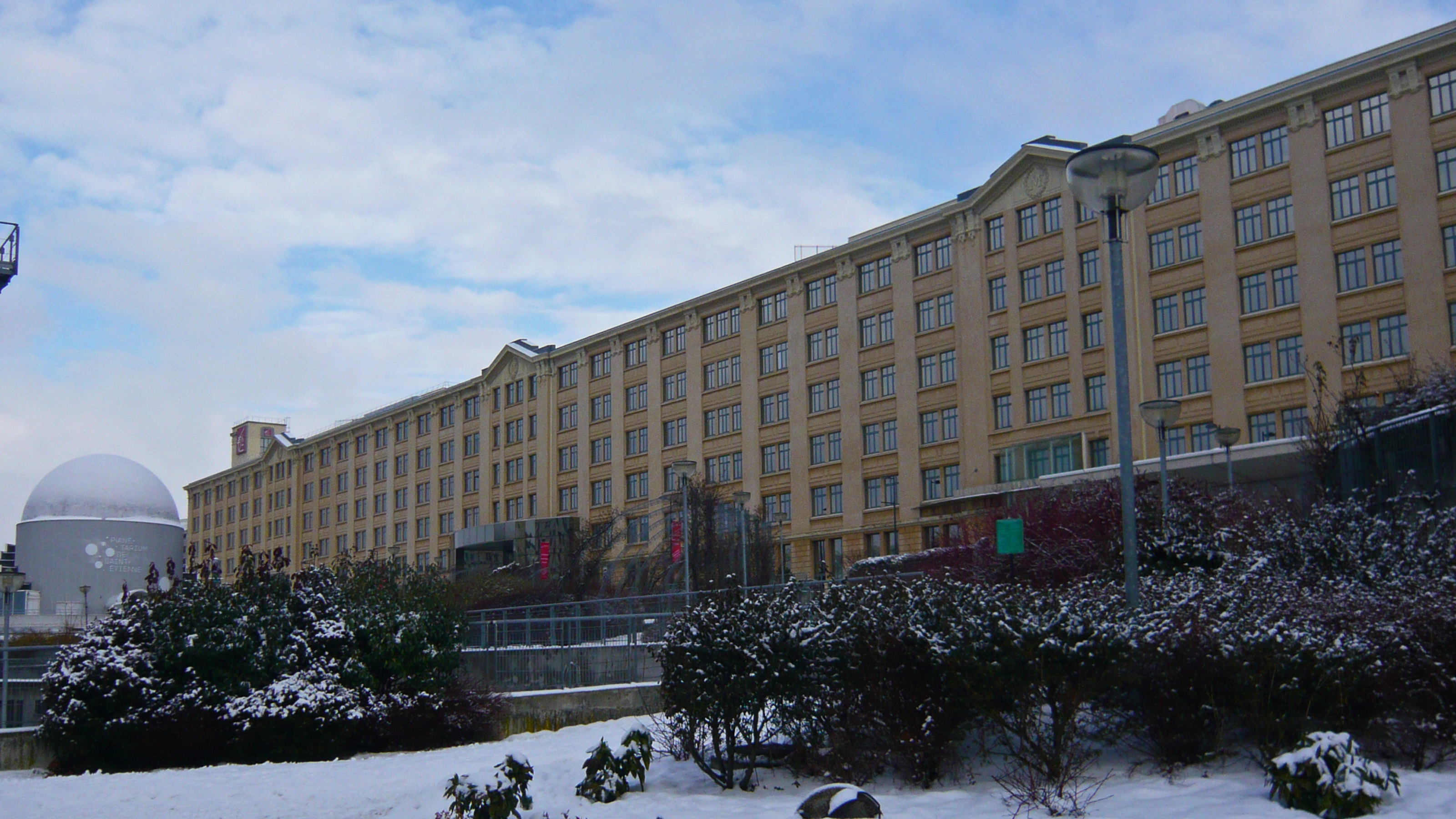 Former workshops and factory of Manufrance